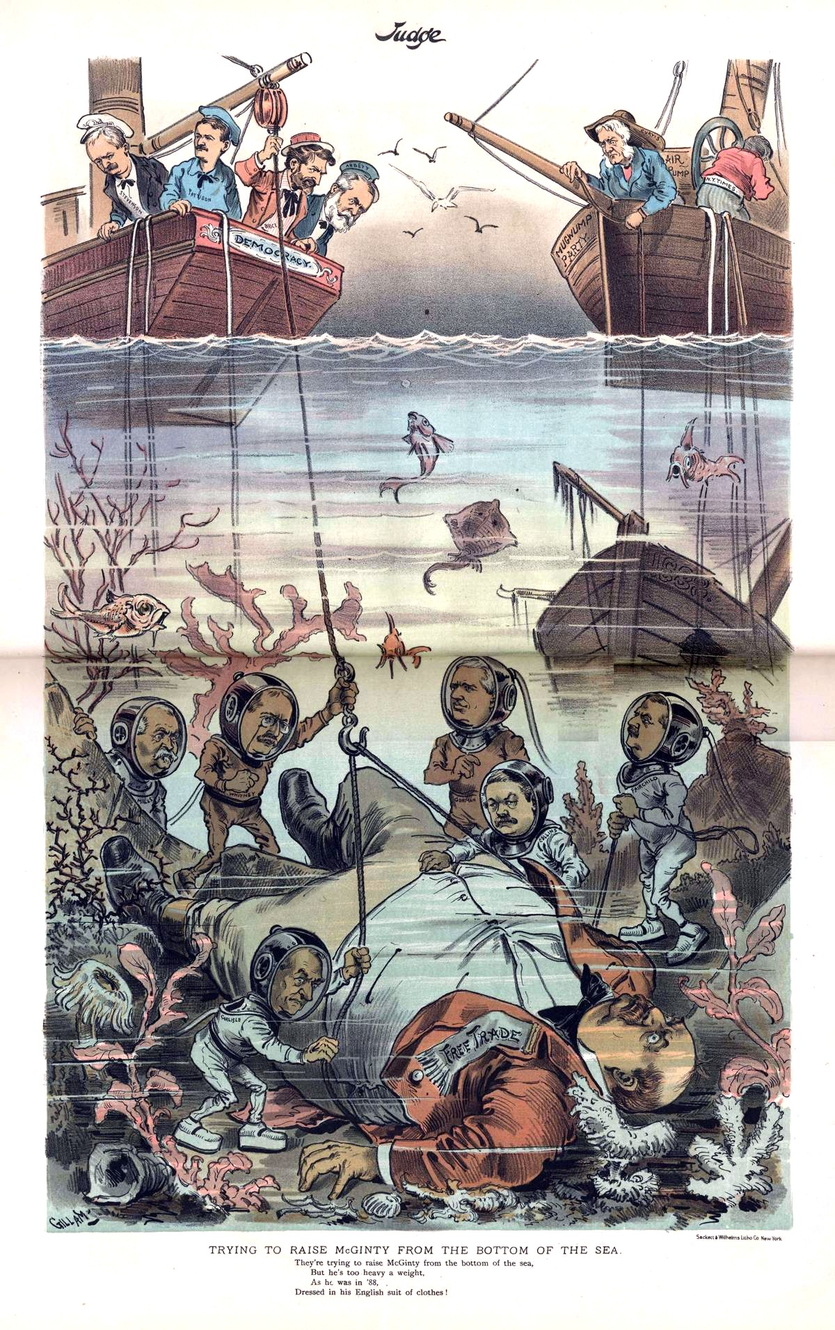 “Trying to Raise McGinty from the Bottom of the Sea”, Topic: The Weighty Nominee: Grover Cleveland, Source: Judge, Date: July 16, 1892, pp. 40-41, Cartoonist: Bernhard Gillam